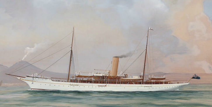 the_alberta_-_king_leopold_royal_yacht.png